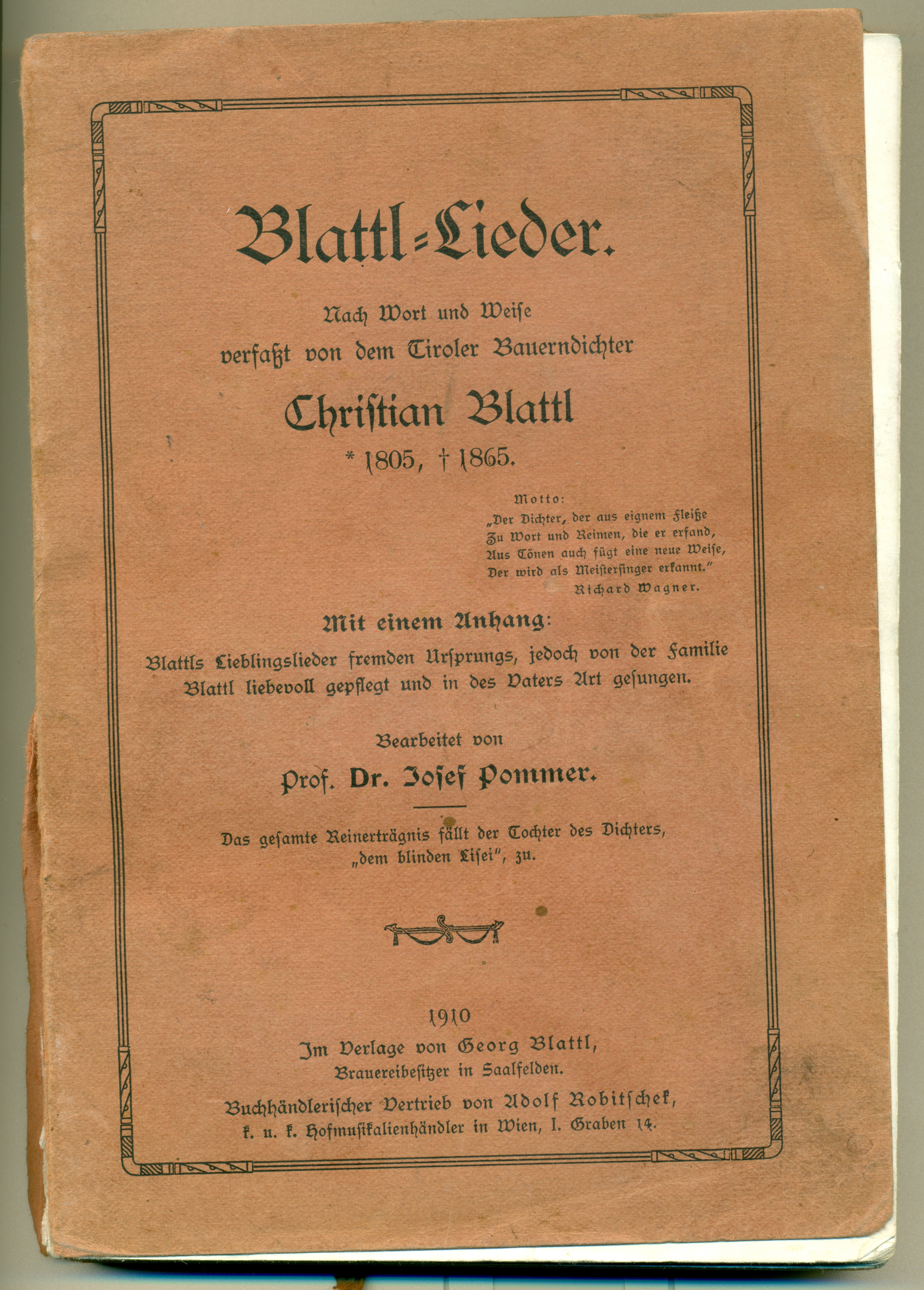 The songbook from Christian Blattl II.